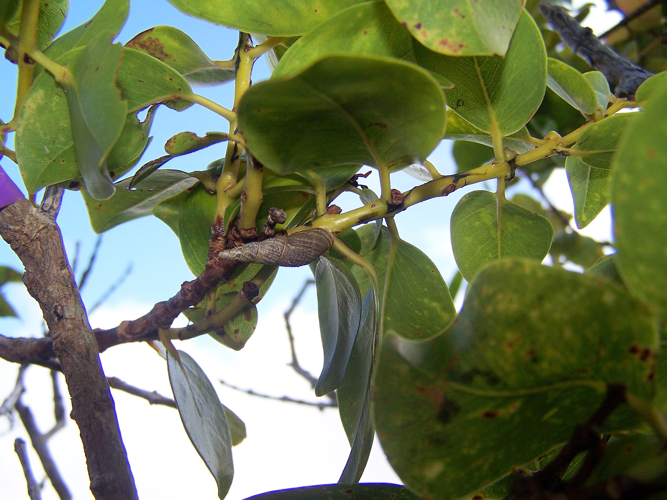 Newcomb's tree snail Newcombia cumingi on a Metrosideros polymorpha. A member of the family Achatinellidae and the endemic Hawaiian subfamily Achatinellinae, is known only from the island of Maui. All members of this species have sinistral (left-coiling), oblong, spindle-shaped shells of five to seven whorls that are coarsely sculptured. Newcomb’s tree snail reaches an adult length of approximately 0.8 in (21 mm) and its shell is mottled in shades of brown that blend with the bark of its native host plant, Metrosideros polymorpha or the ohia tree.